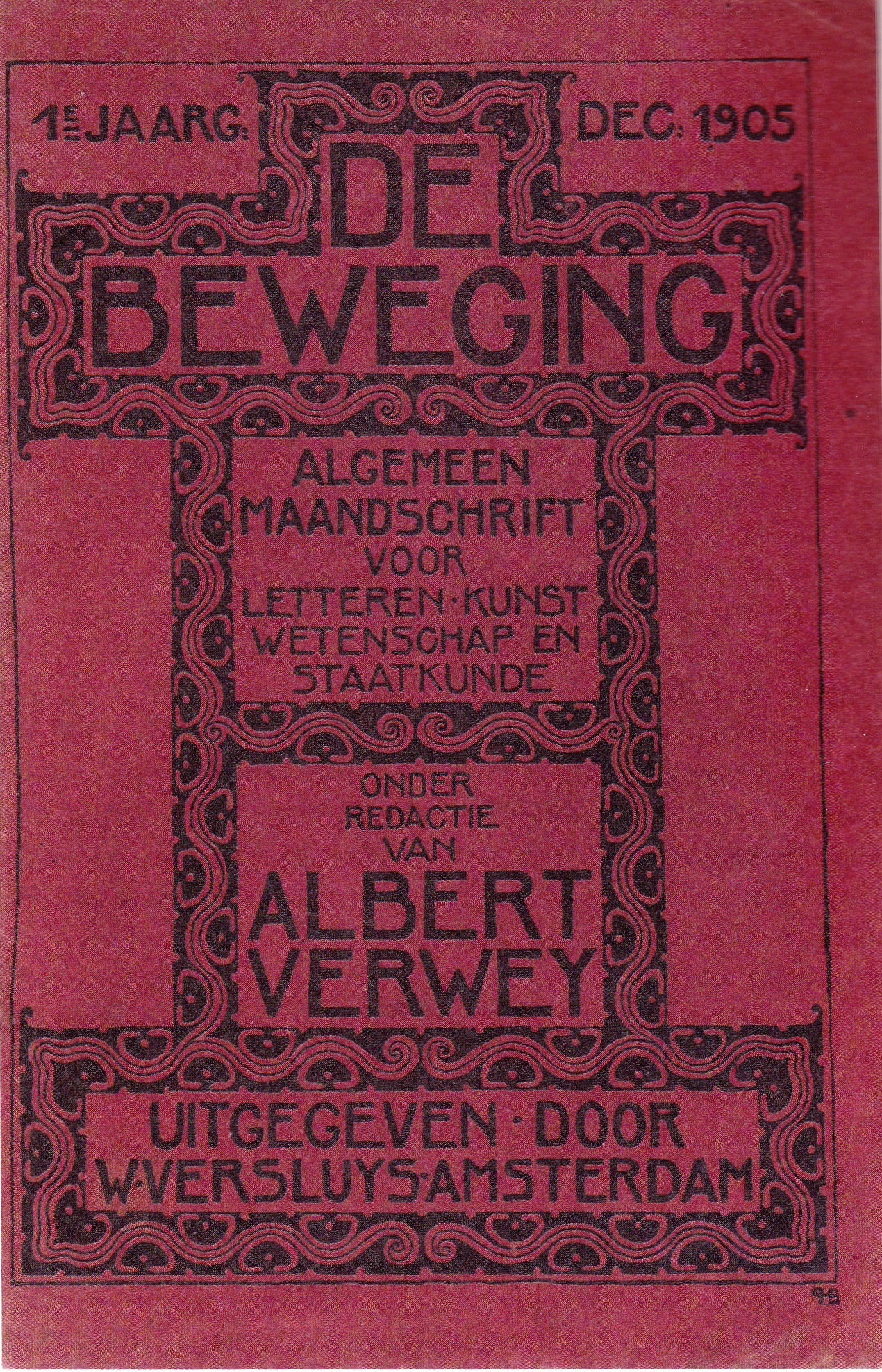 Dutch literary magazine De Beweging, Dec. 1905. Design by Hendrik Petrus Berlage (1856-1934)